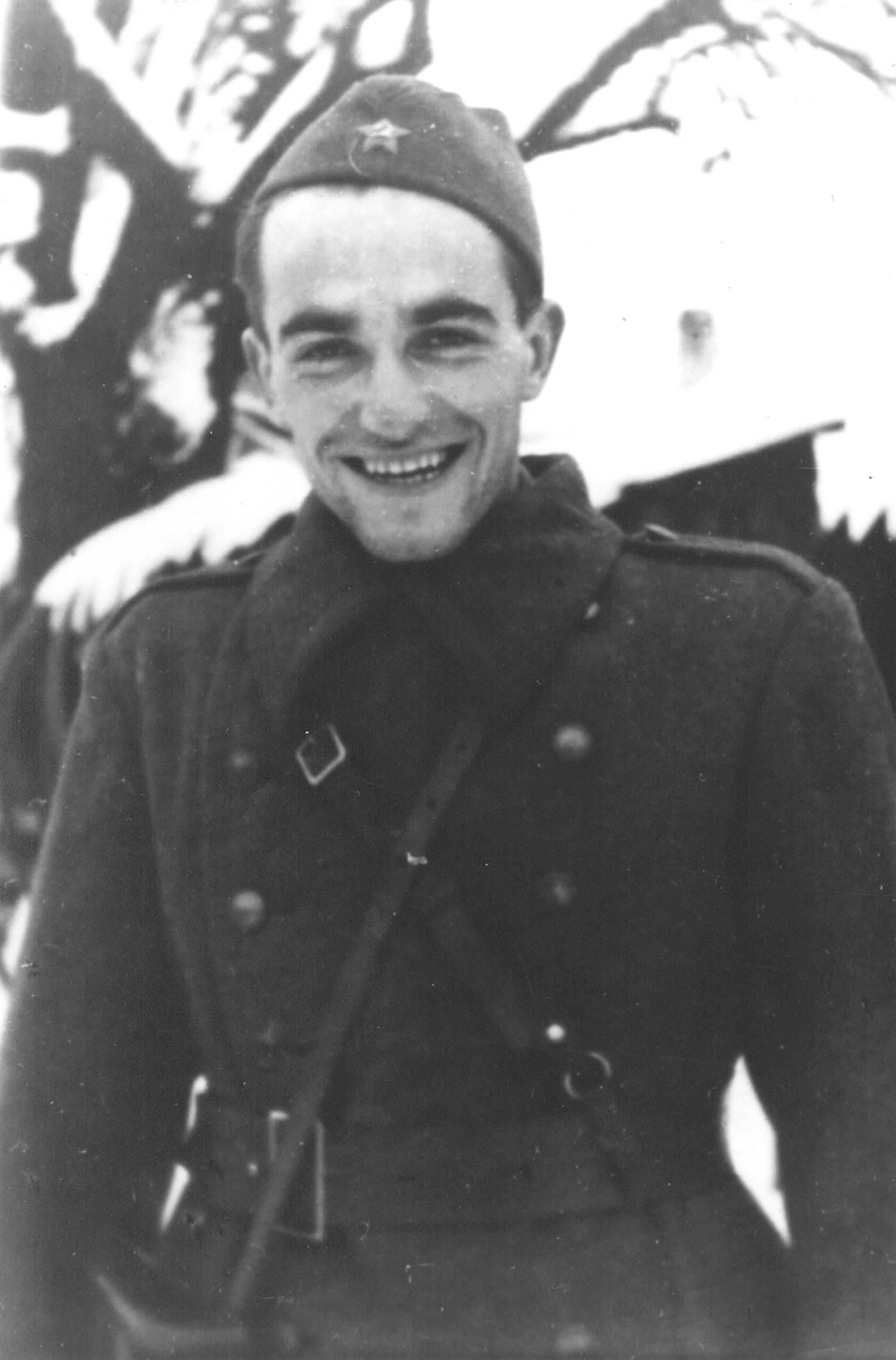 Komnen Žugić (1921-1946), Montenegrin partisan and officer